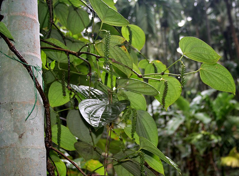 Piper nigrum- Black pepper, Green pepper, Pink pepper, White pepper • Hindi: काली मिर्च Kali mirch • Marathi: गोलमिरिच Golmirich • Tamil: Kurumilagu • Malayalam: Kurumulaku • Telugu: Miryalatige • Kannada: Karimenasu • Urdu: Syah mirch • Gujarati: કાલો મિરિચ Kalomirich • Sanskrit: Marich- in Goa, India.